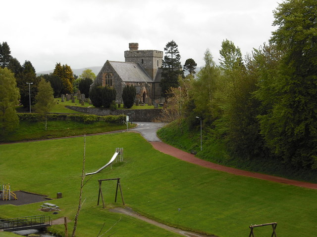 Biggar Kirk Across the park from Rowhead Terrace